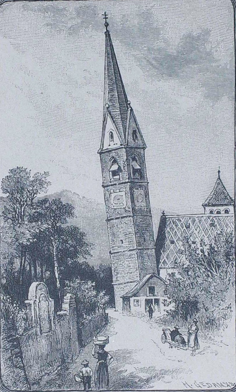 caption: "Der schiefe Thurm von Terlan."